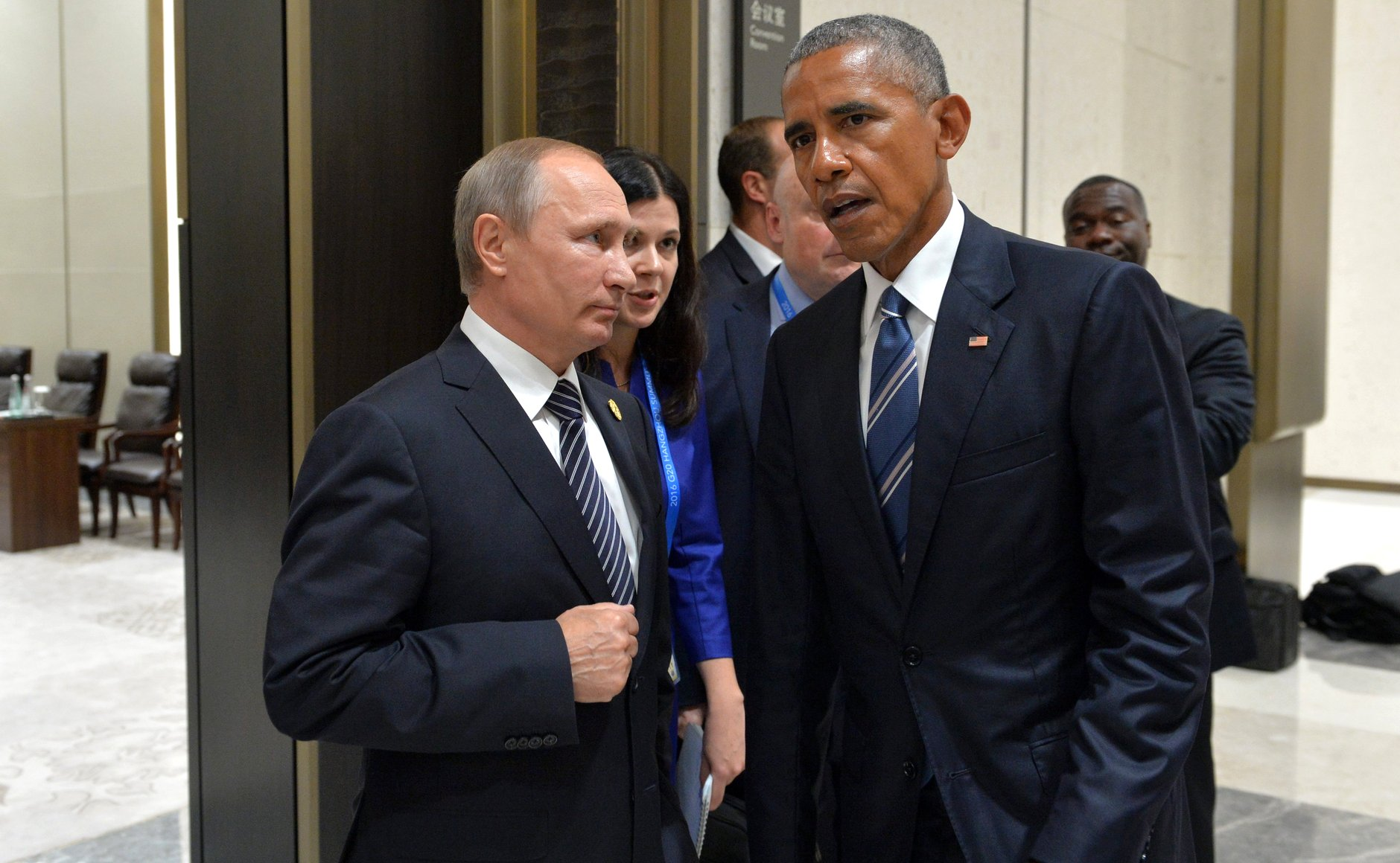 Russian President Vladimir Putin and President Barack Obama at the end of their bilateral meeting.